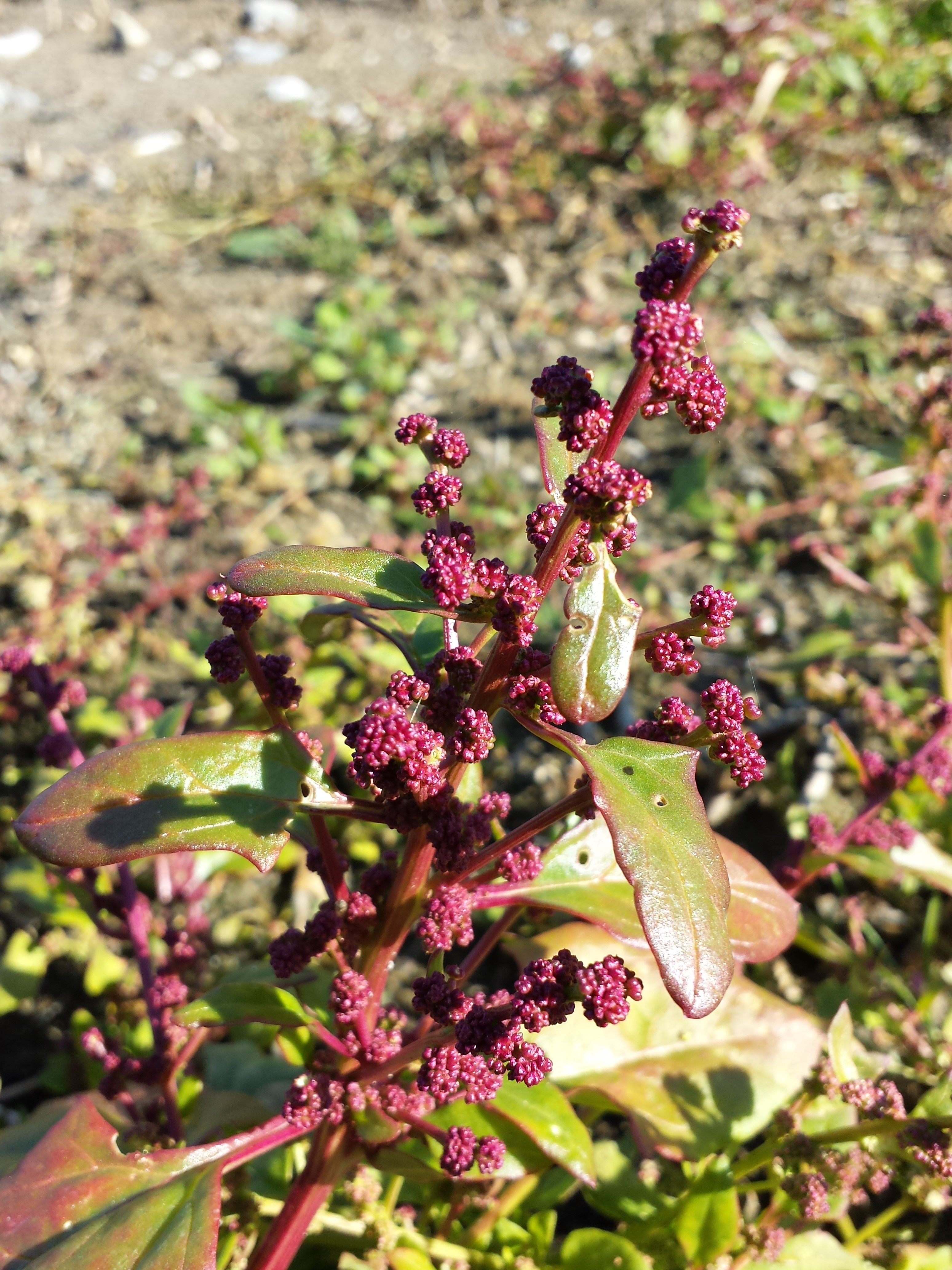 Florescence Taxon: Chenopodium chenopodioides (sensu Fischer et al. EfÖLS 2008; det M. A. Fischer 2013-10-12) Location: small salt lake near Podersdorf, district Neusiedl am See, Burgenland, Austria - ca. 120 m a.s.l. Habitat: dried-out small salt lake